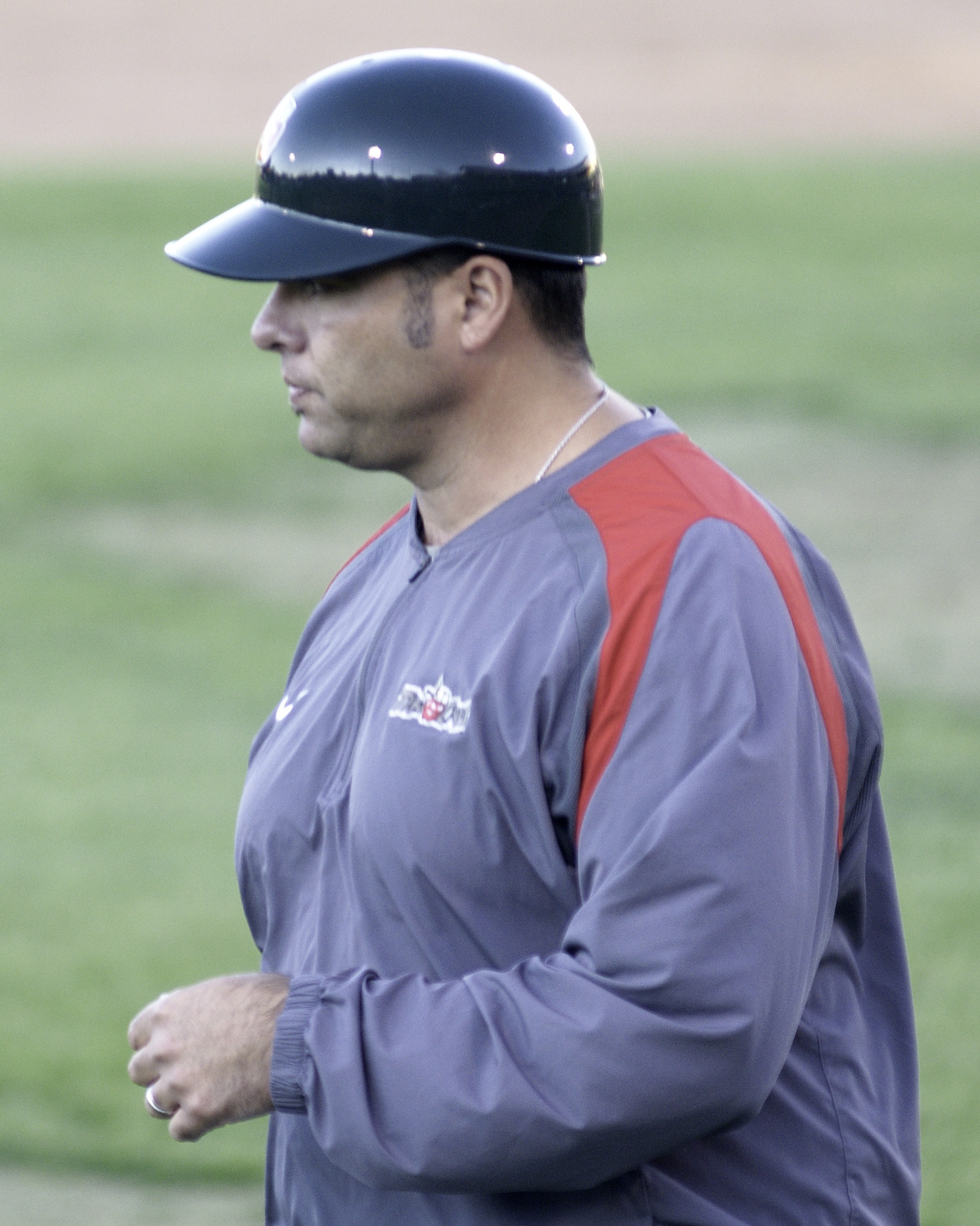 Shawn Wooten as manager of the Fort Wayne TinCaps during a game against the Lansing Lugnuts in Lansing, Michigan in 2011.